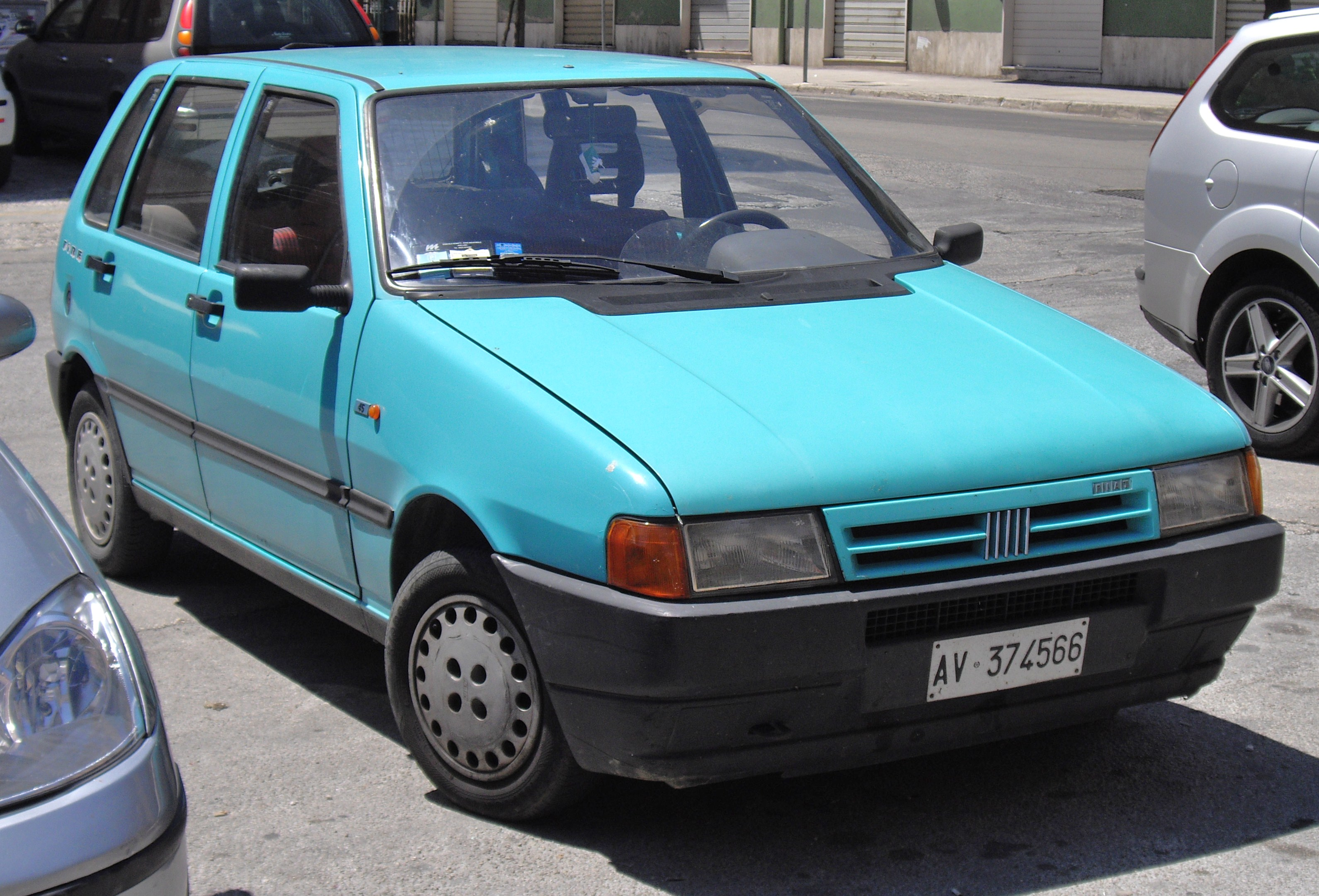 Fiat Uno II